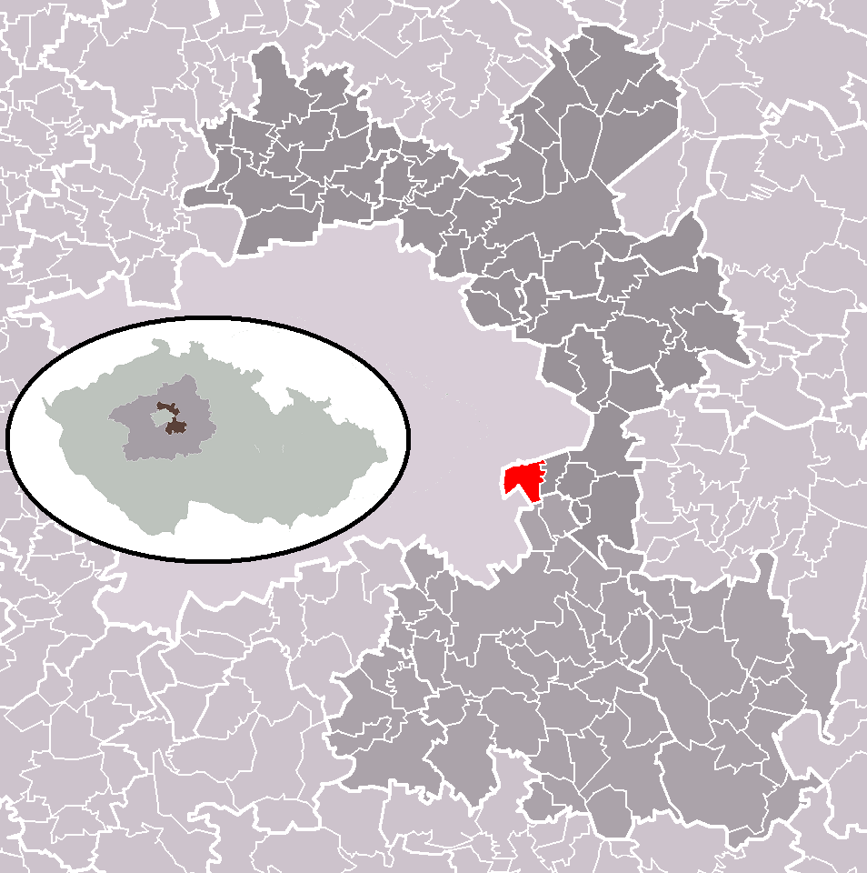 Location of Sibřina municipality within Prague-East District and administrative area of Brandýs nad Labem-Stará Boleslav as a Municipality with Extended Competence.